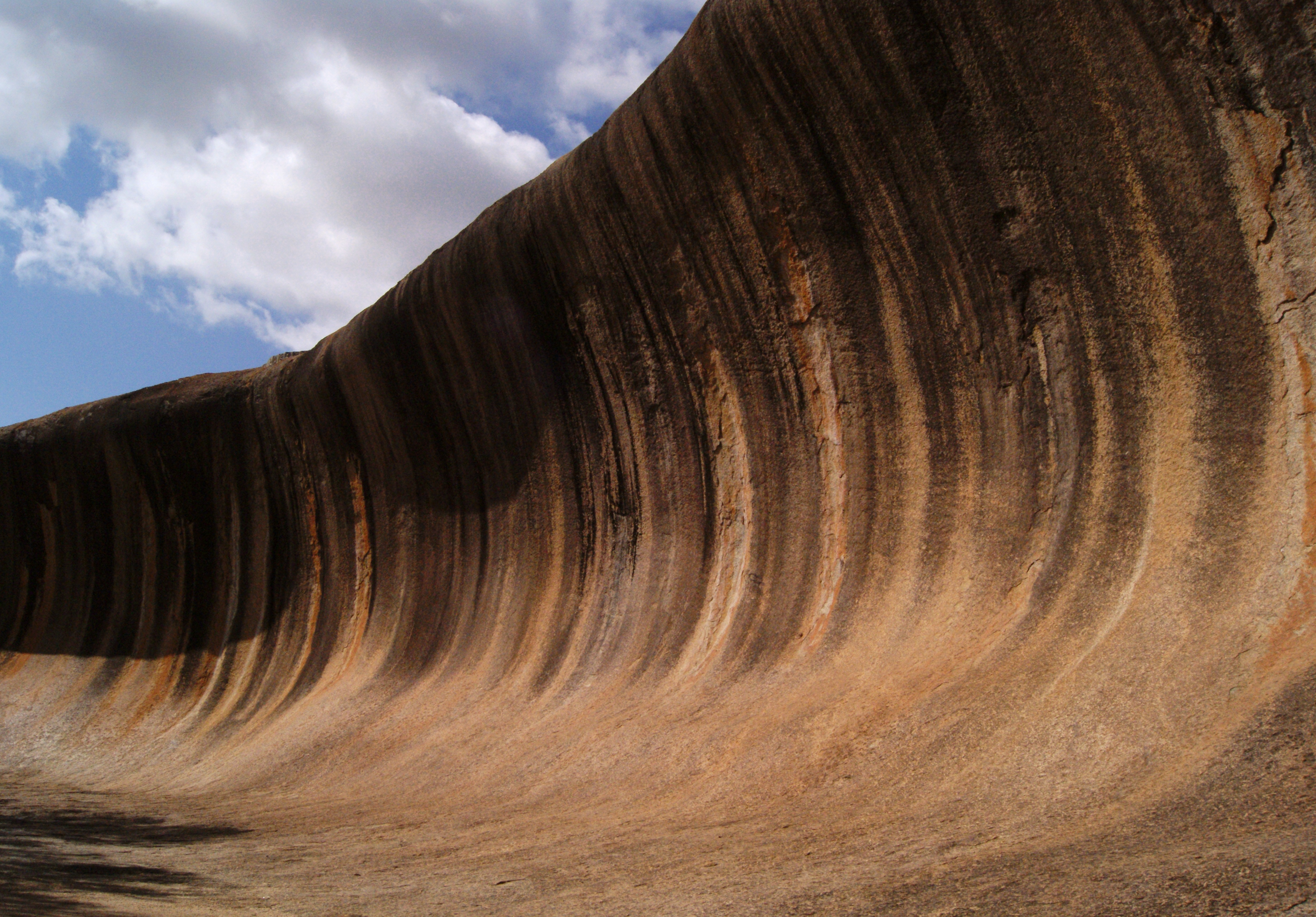 The face of wave rock, Hyden.